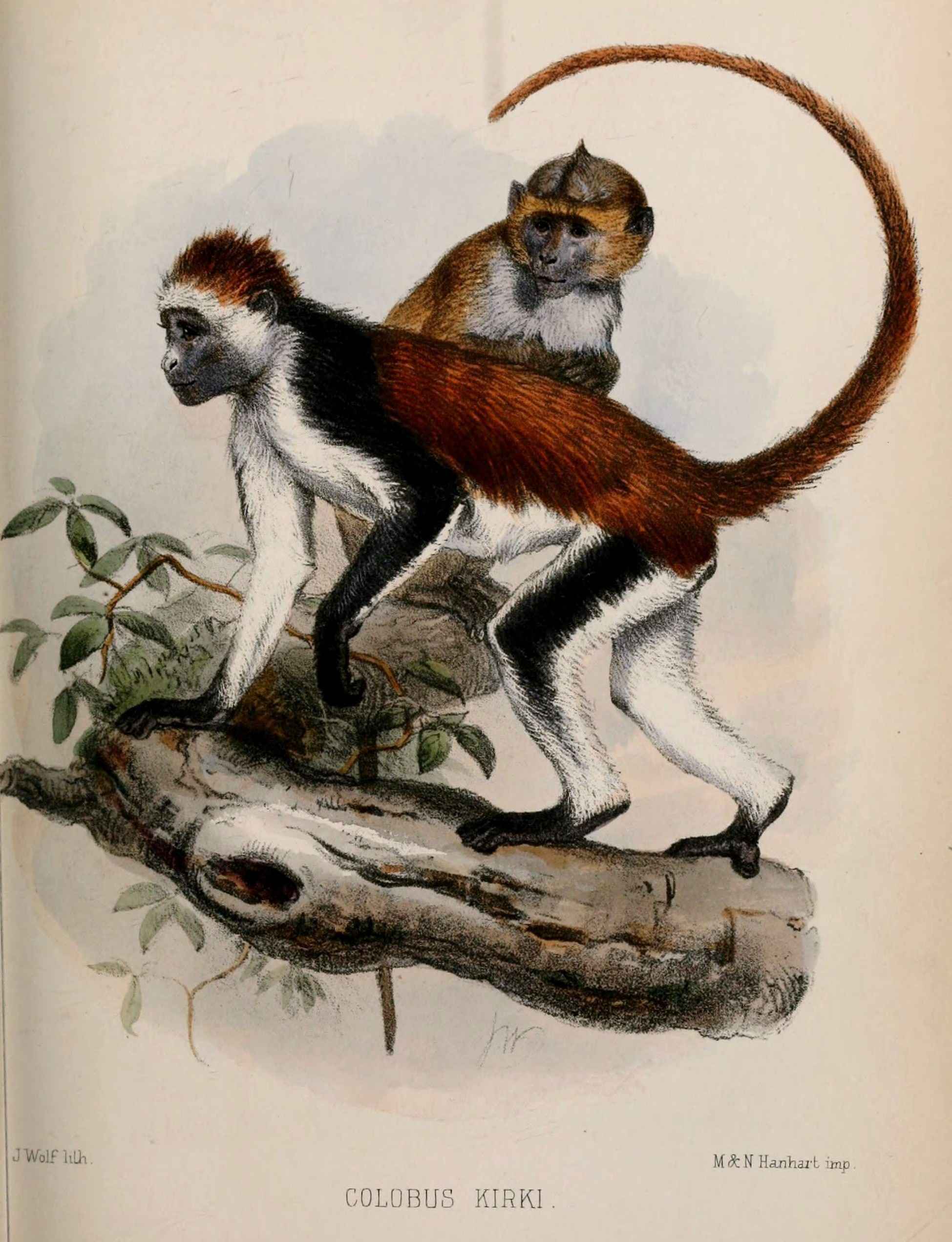 Piliocolobus kirkii (Zanzibar red colobus)